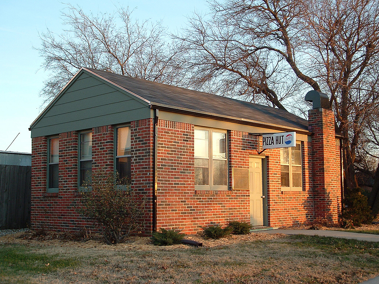 First Pizza Hut building at Wichita State University Campus, Kansas. This was opened on June 15, 1958 by two brothers Frank and Dan Carney attending the University of Wichita at that time, at the corner of Kellogg and Bluff. This building was moved to the WSU campus to serve as a symbol and reminder to WSU students that young individuals, through hard work and initiative, can rise from modest beginnings to positions of leadership and success.